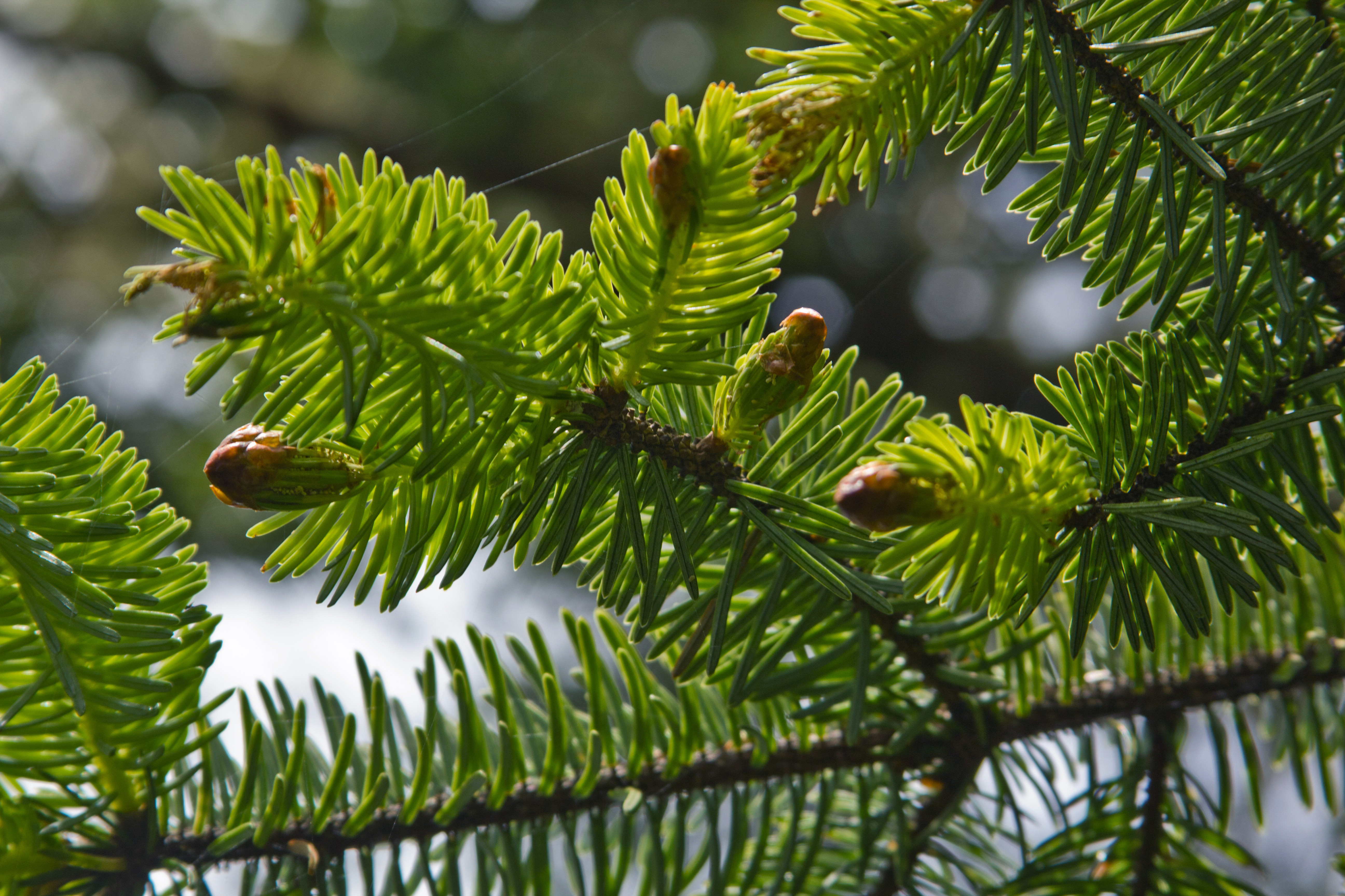 Picea sitchensis foliage, Wild Pacific Trail, Ucluelet, Vancouver Island, British Columbia.